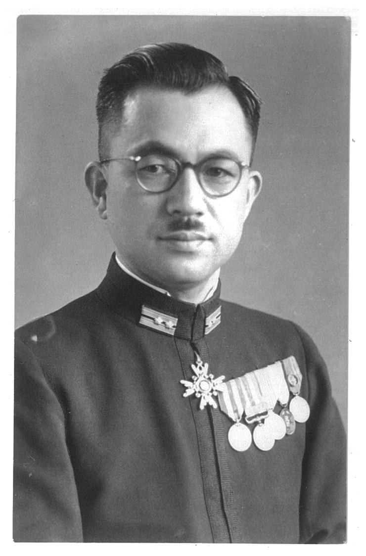 Yoji Ito